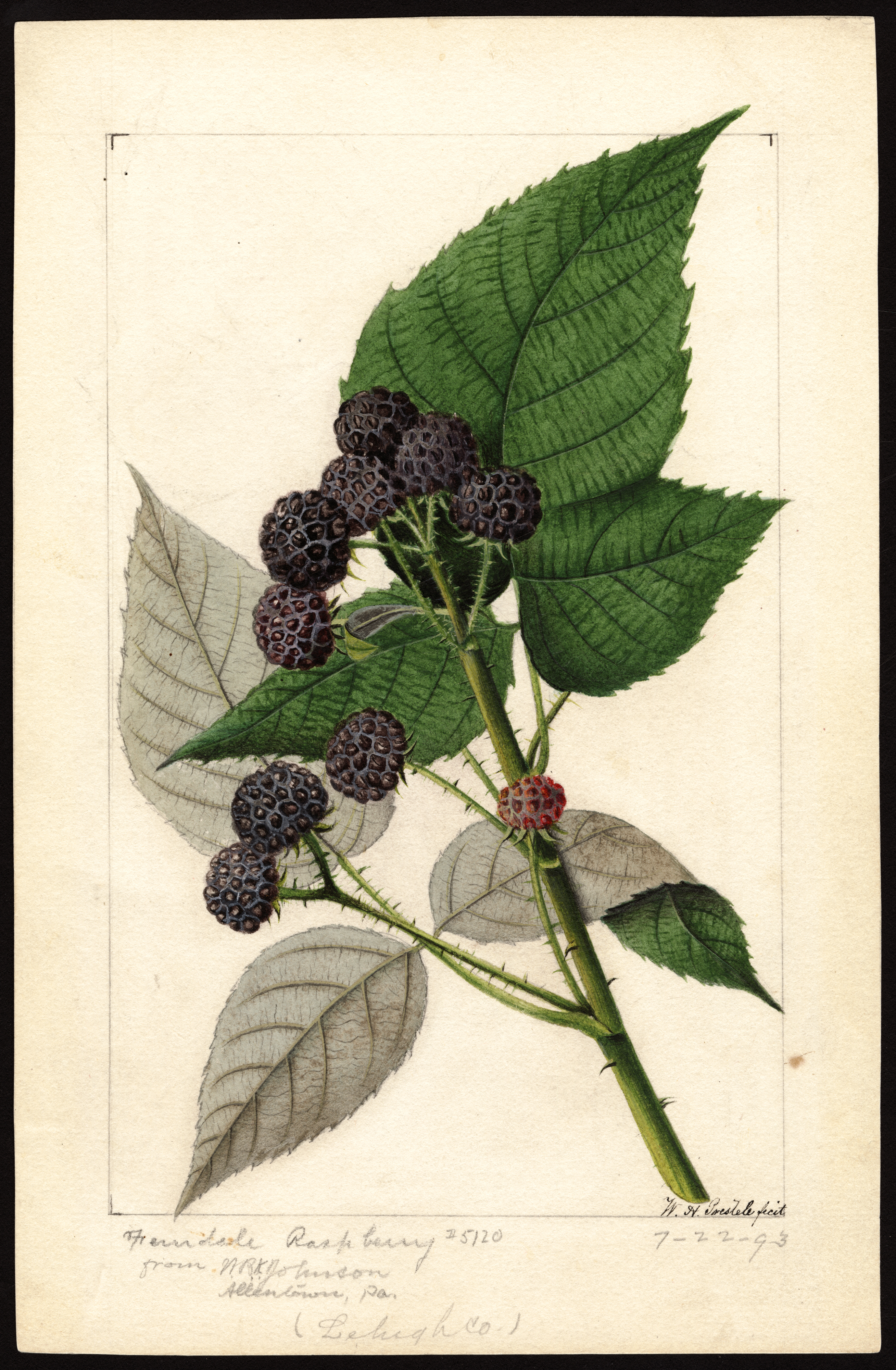 Image of the Ferndale variety of black raspberries (scientific name: Rubus occidentalis), with this specimen originating in Allentown, Lehigh County, Pennsylvania, United States. Source: U.S. Department of Agriculture Pomological Watercolor Collection. Rare and Special Collections, National Agricultural Library, Beltsville, MD 20705.